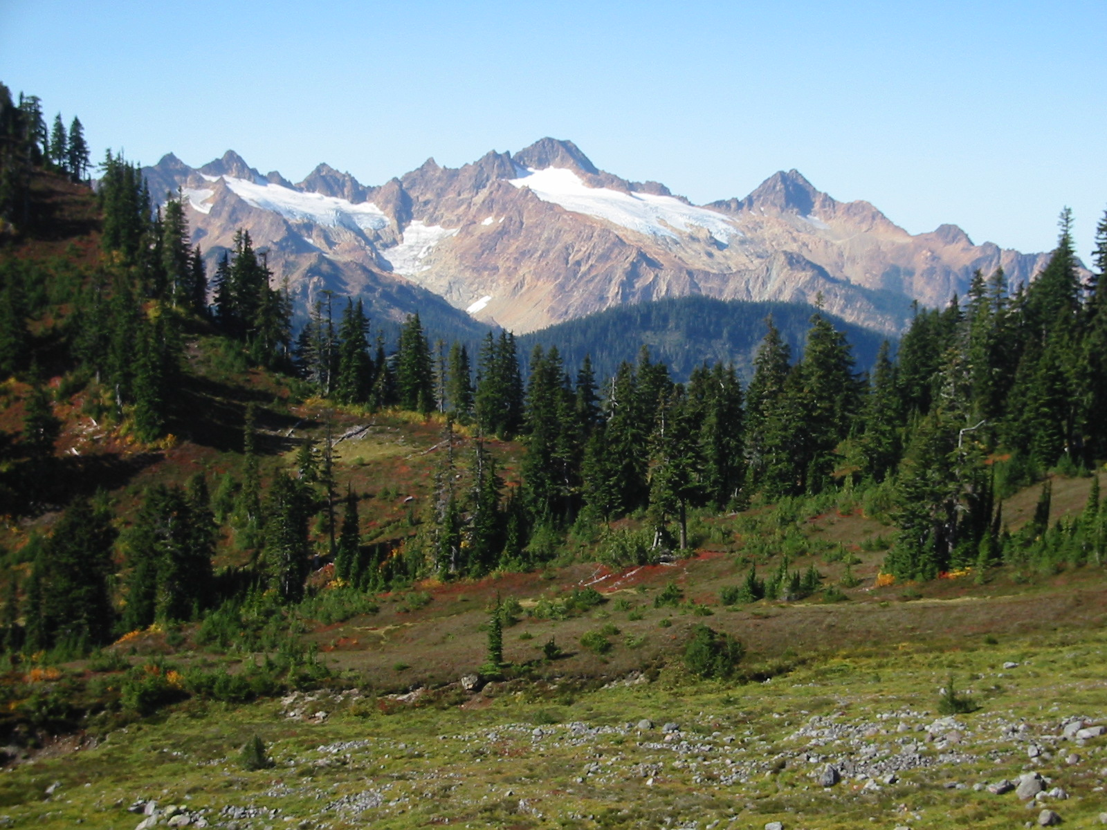 Twin Sisters Mountain South Twin (7000+ feet, 2134+ m, center); North Twin (6640+ feet, 2024+ m, right); Sisters Glacier